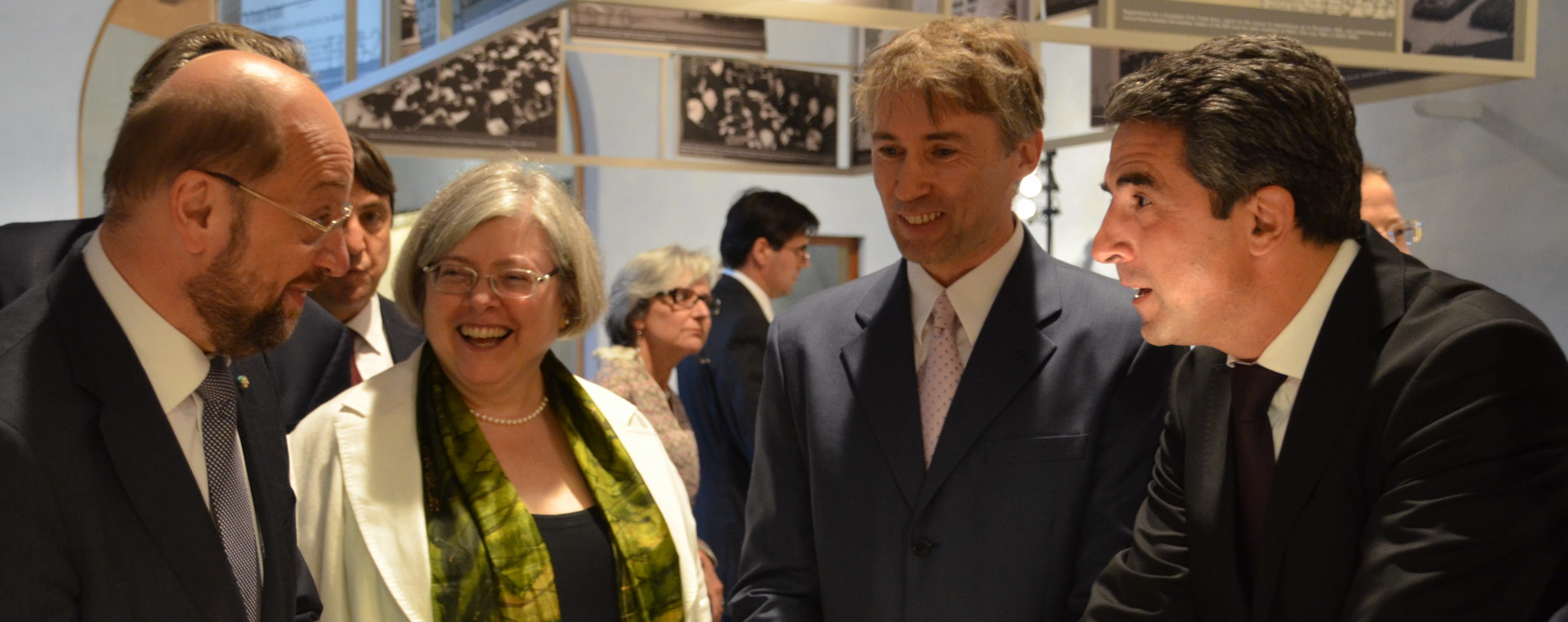 Dieter Schlenker, Director of the Historical Archives of the European Union, showing the exhibition to Martin Schulz, President of the European Parliament, Rosen Plevneliev, President of Bulgaria and Marise Cremona, President of the EUI, 9th May 2013 photo courtesy of Niccolò Tognarini